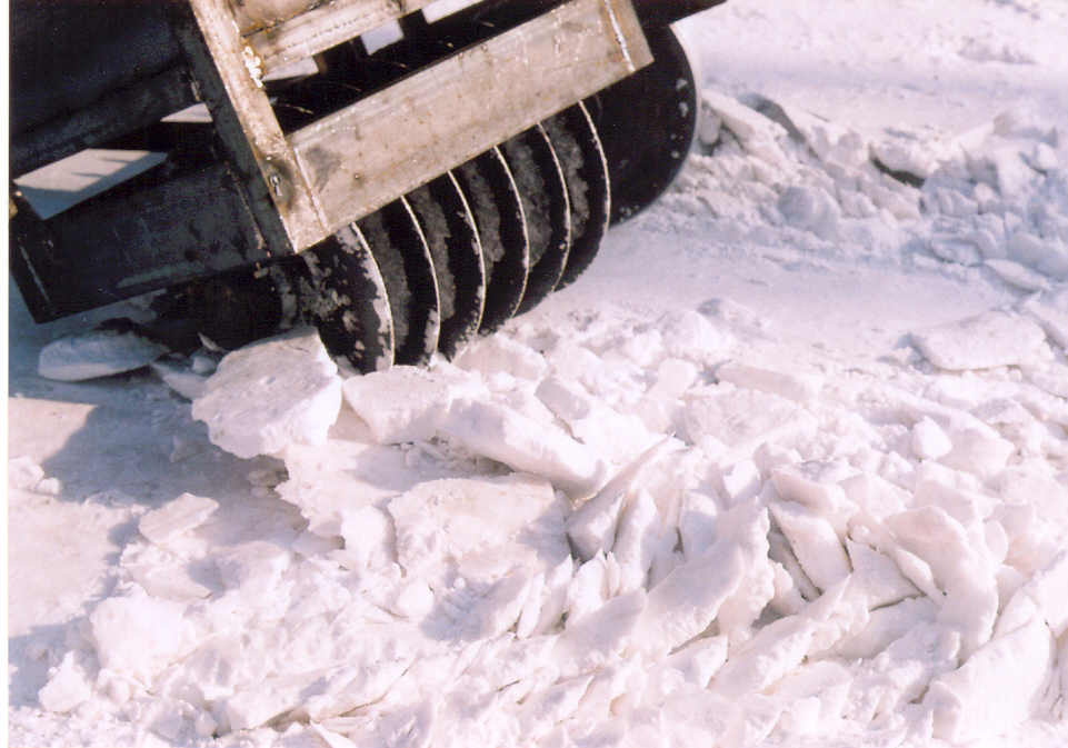 method of ice destruction-02